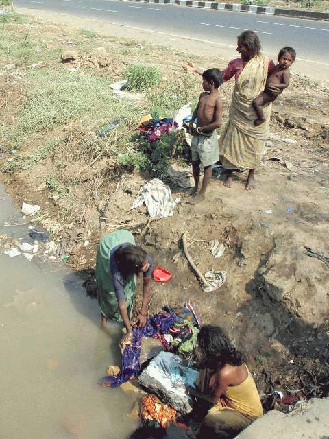 Women washing clothes in ditch alongside Main Road in Mumbai, India. Source: Antônio Milena/ABr. Photograph copied from the website of Agência Brasil, which states: The Agência Brasil makes images and photos available free of charge. To comply with existing law, we kindly request our users to list the credits as in the example: photographer's name/ABr. This photo appeared as 12797.jpg on 15.Jan.2004. The photo was downloaded, cropped, and resized by Hajor.